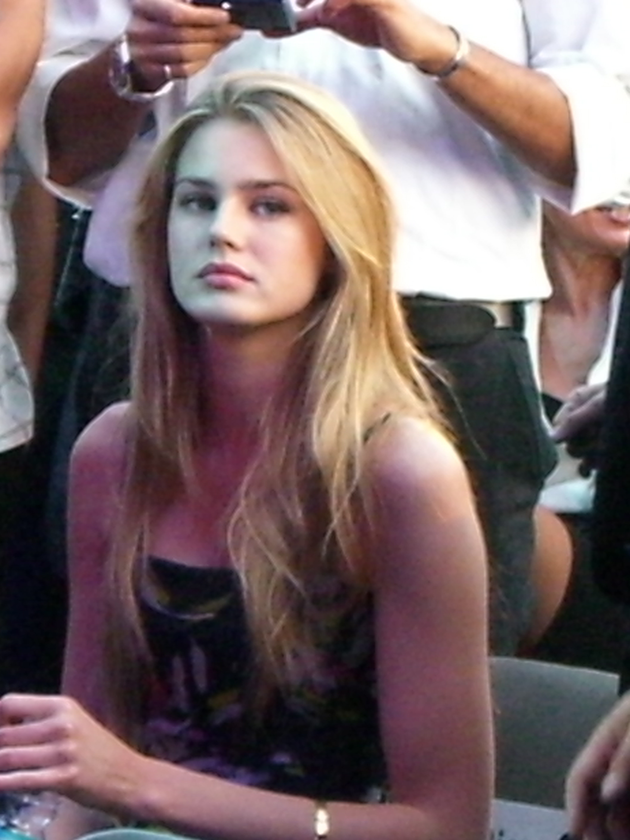 Vanessa Hessler at Wind Music Awards.